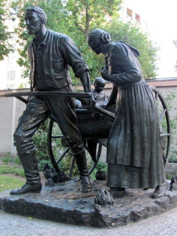 The Handcart Pioneer Monument, a statue commemorating Mormon handcart pioneers, found on Temple Square in Salt Lake City, Utah. The original 1926 bronze by Torleif Soviren Knaphus was reproduced life-size in 1945 for The Church of Jesus Christ of Latter-day Saints by Knaphus.